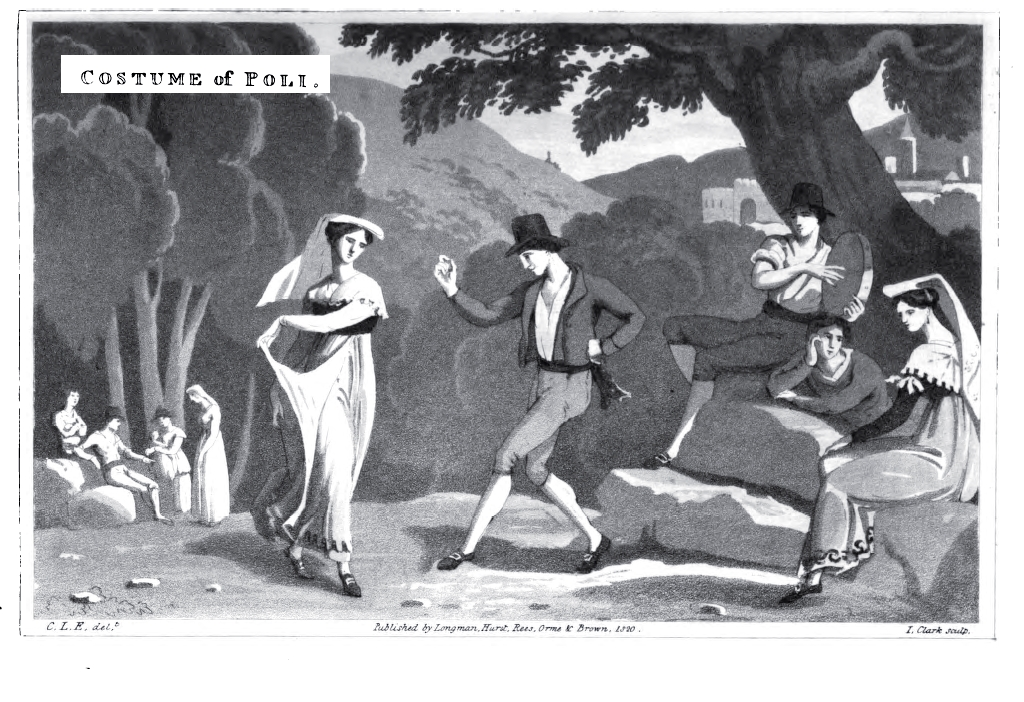 table showing paysans at 1819 in Poli (near Rome)